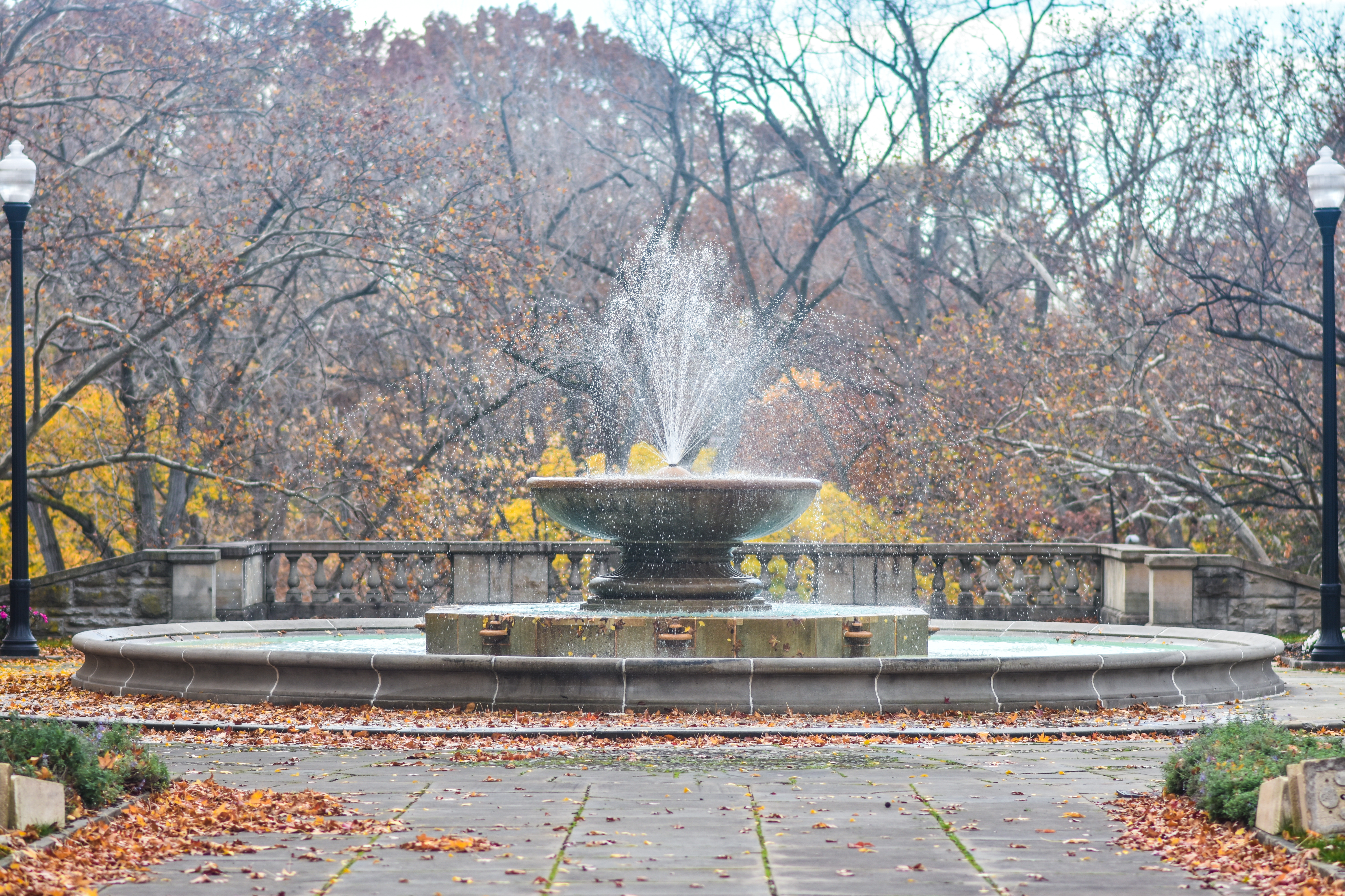 Italian Cultural Gardens